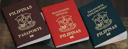 Passports of the Philippines